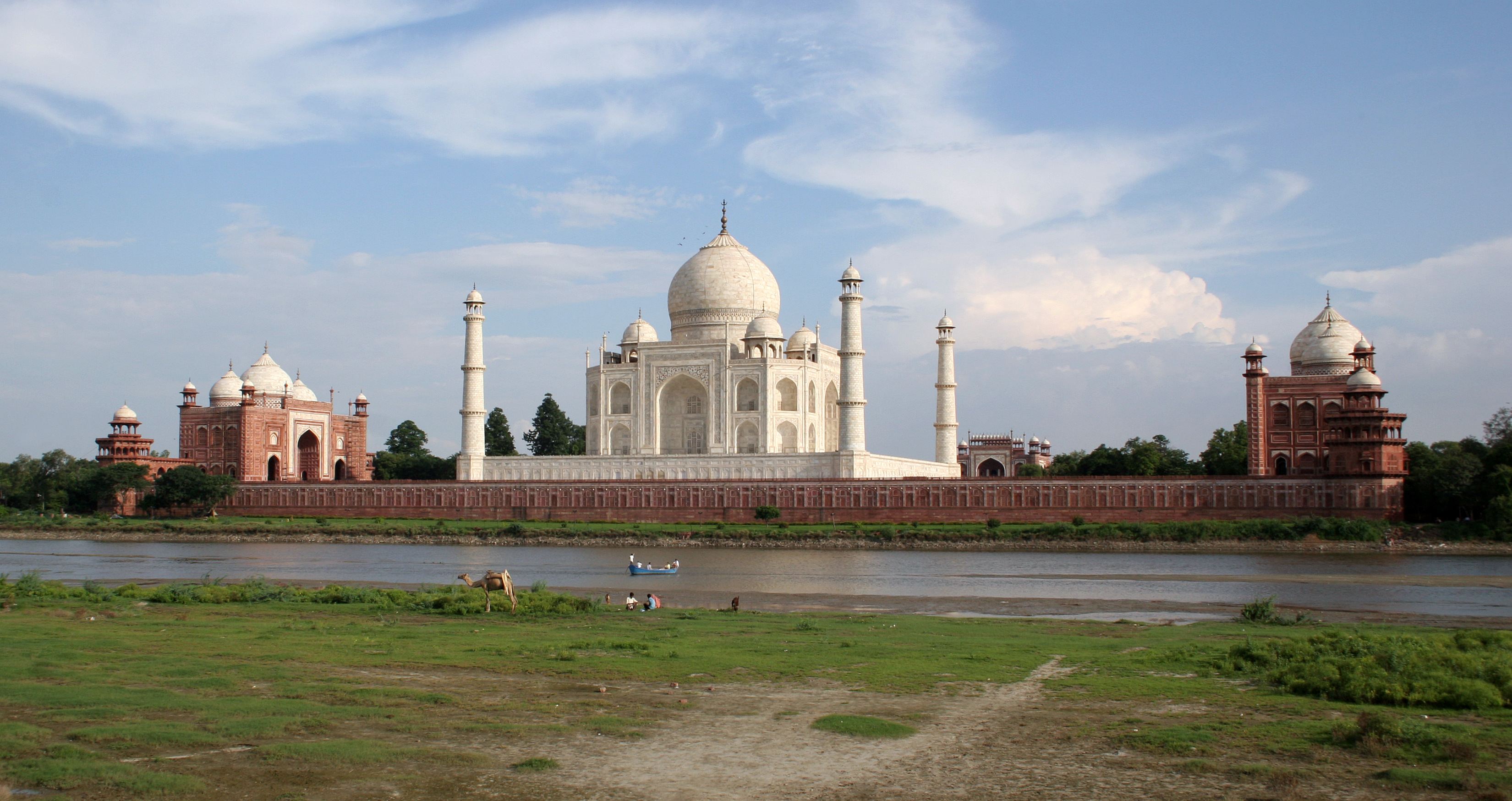 Taj Mahal world heritage site in Agra, India.